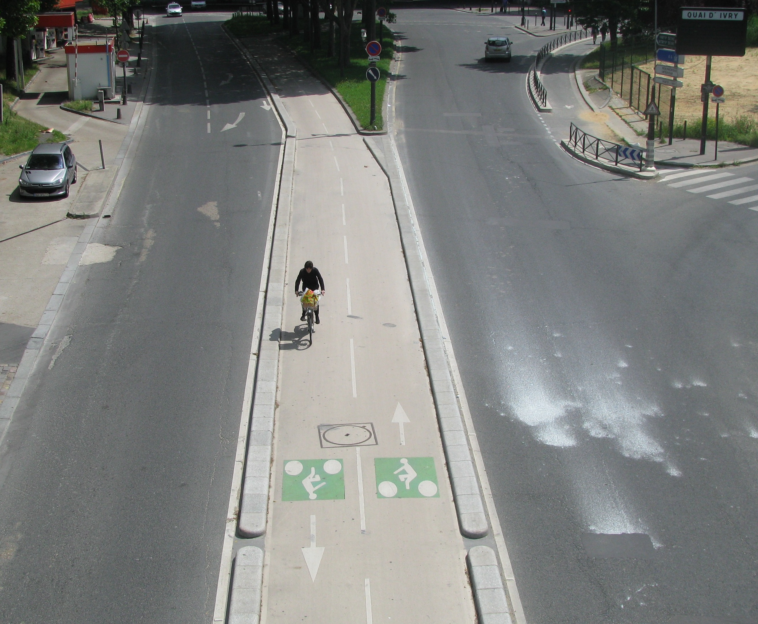 Example of a biking lane set recently between two car lanes. The photo was taken in Paris, Quai d'Ivry, from the bridge of Boulevard des Maréchaux.